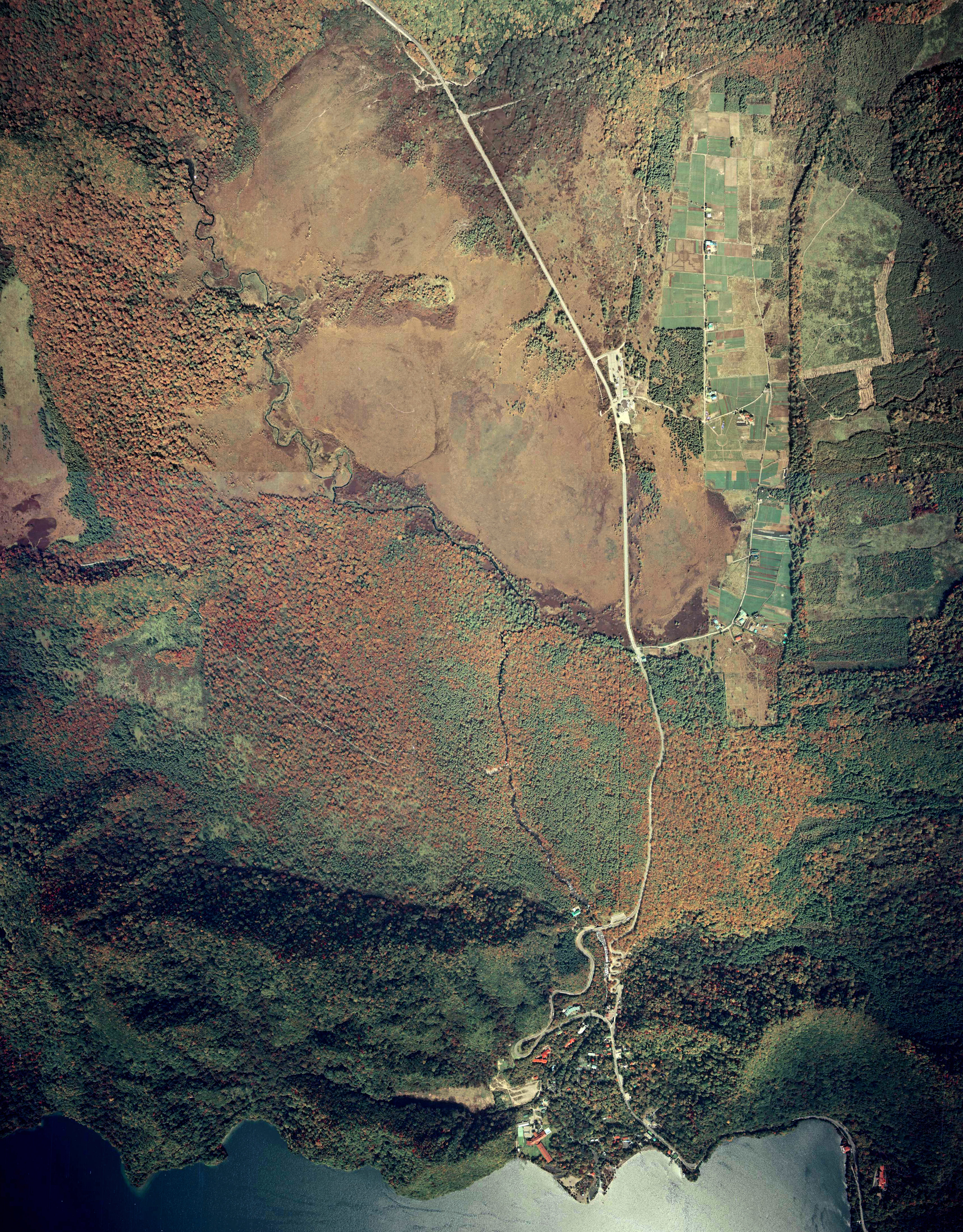 Japan: aerial view of Senjōgahara in Nikkō (Tochigi prefecture).